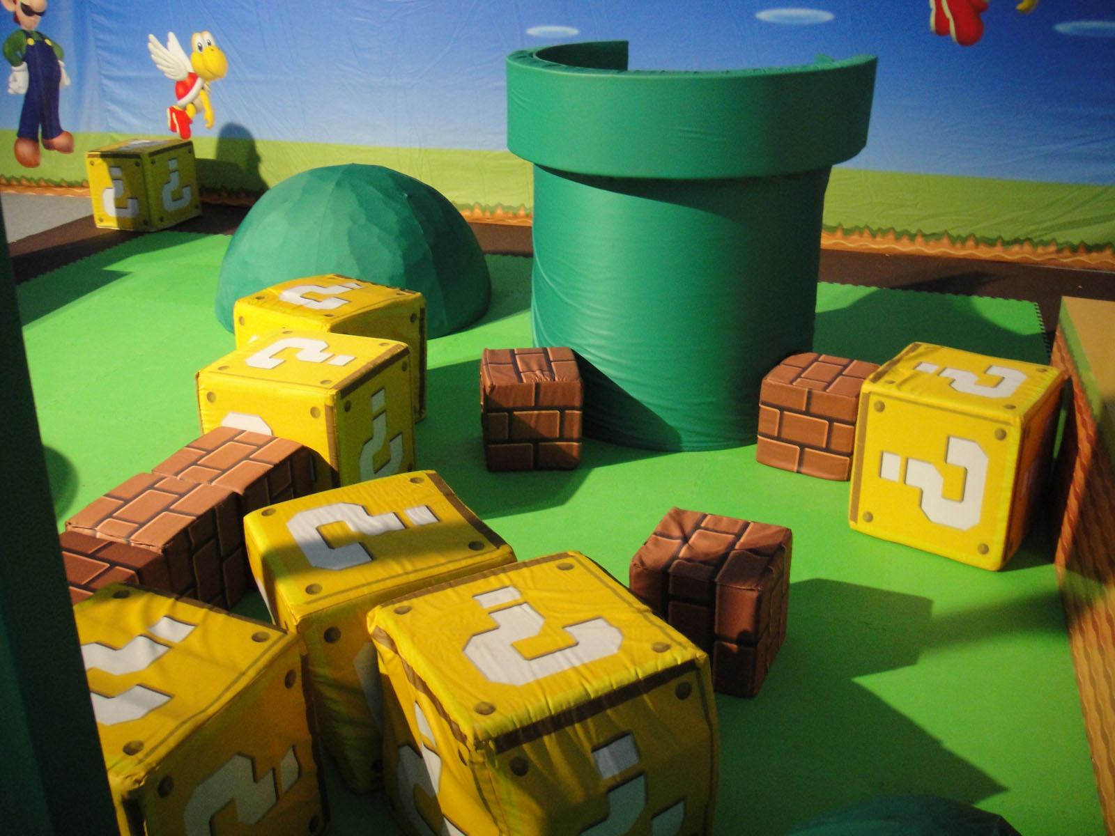 Wii Games Summer 2010 - Mario's Kid Zone